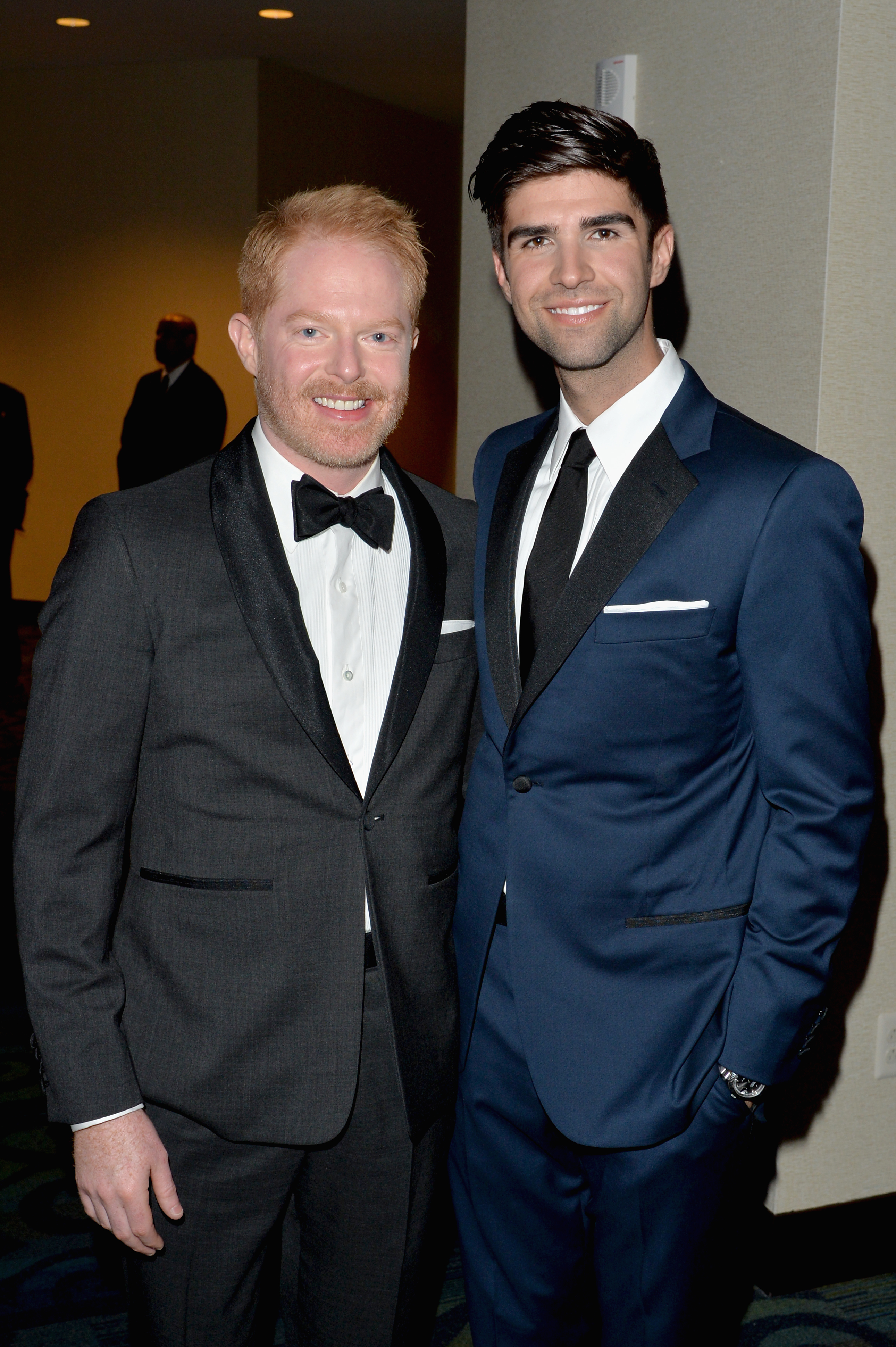 WASHINGTON, DC - MAY 03: Actor Jesse Tyler Ferguson and Justin Mikita attend the Yahoo News/ABCNews Pre-White House Correspondents' dinner reception pre-party at Washington Hilton on May 3, 2014 in Washington, DC. (Photo by Andrew H. Walker/Getty Images for Yahoo News)